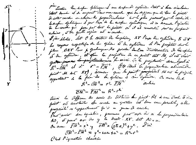 This is the beginning part of paper to apply for a contest.